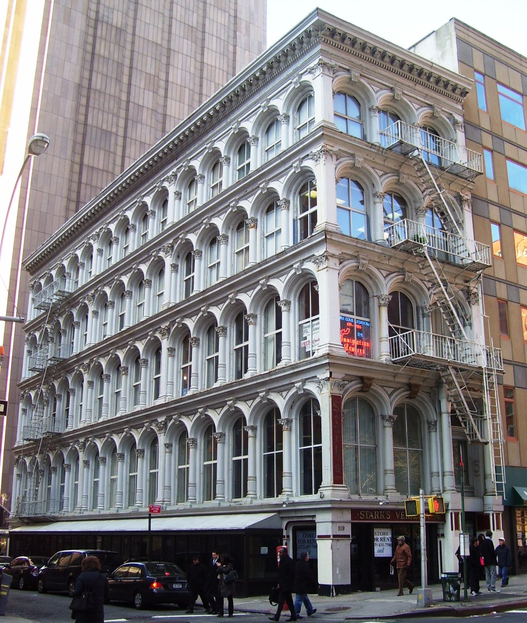 319 Broadway at the corner of Thomas Street in the Tribeca neighborhood of Manhattan, New York City is a cast-iron building in the Italianate style built in 1869-70 and designed by D. & J. Jardine. It is the lone survivor of a pair of buildings at 317 and 319 which were known as the "Thomas Twins." The cast-iron for these mirror-twin buildings was provided by Daniel D. Badger's Architectural Iron Works. The building was designated a New York City landmark on August 29, 1989. (Source: "NYCLPC Designation Report")